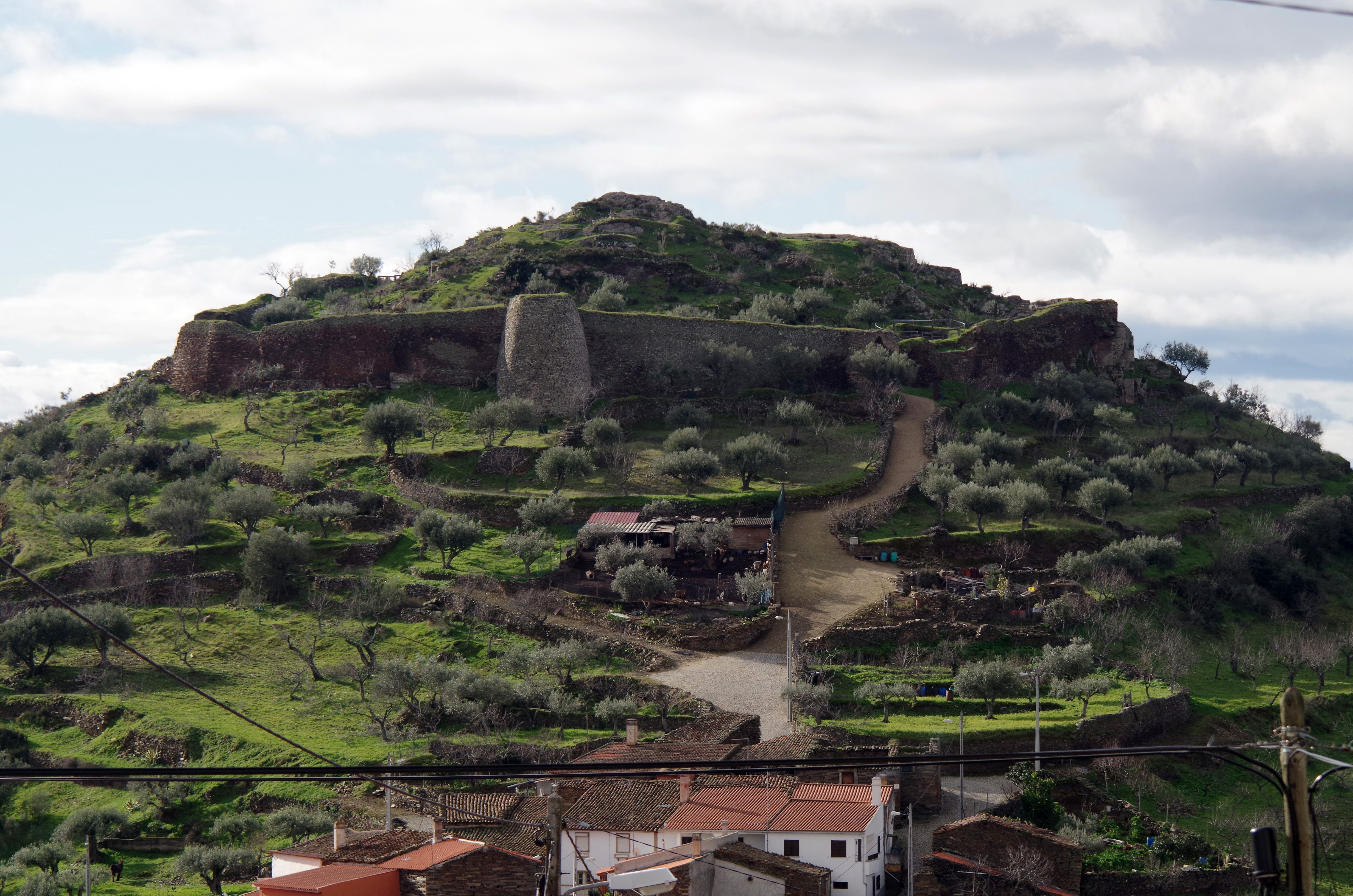 Castle of Castelo Melhor (Guarda, Portugal).